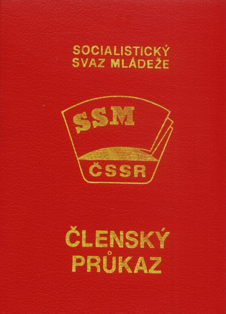 Member's card of Socialist Youth Union in communist Czechoslovakia (1970-1989).